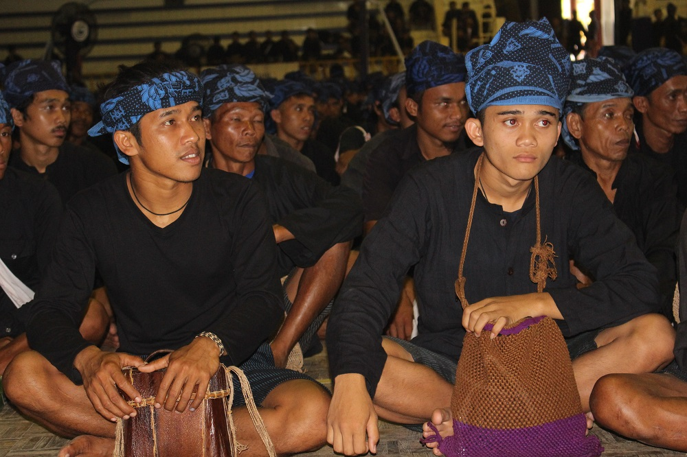 Baduy people at Seba Baduy event, April 29, 2017.